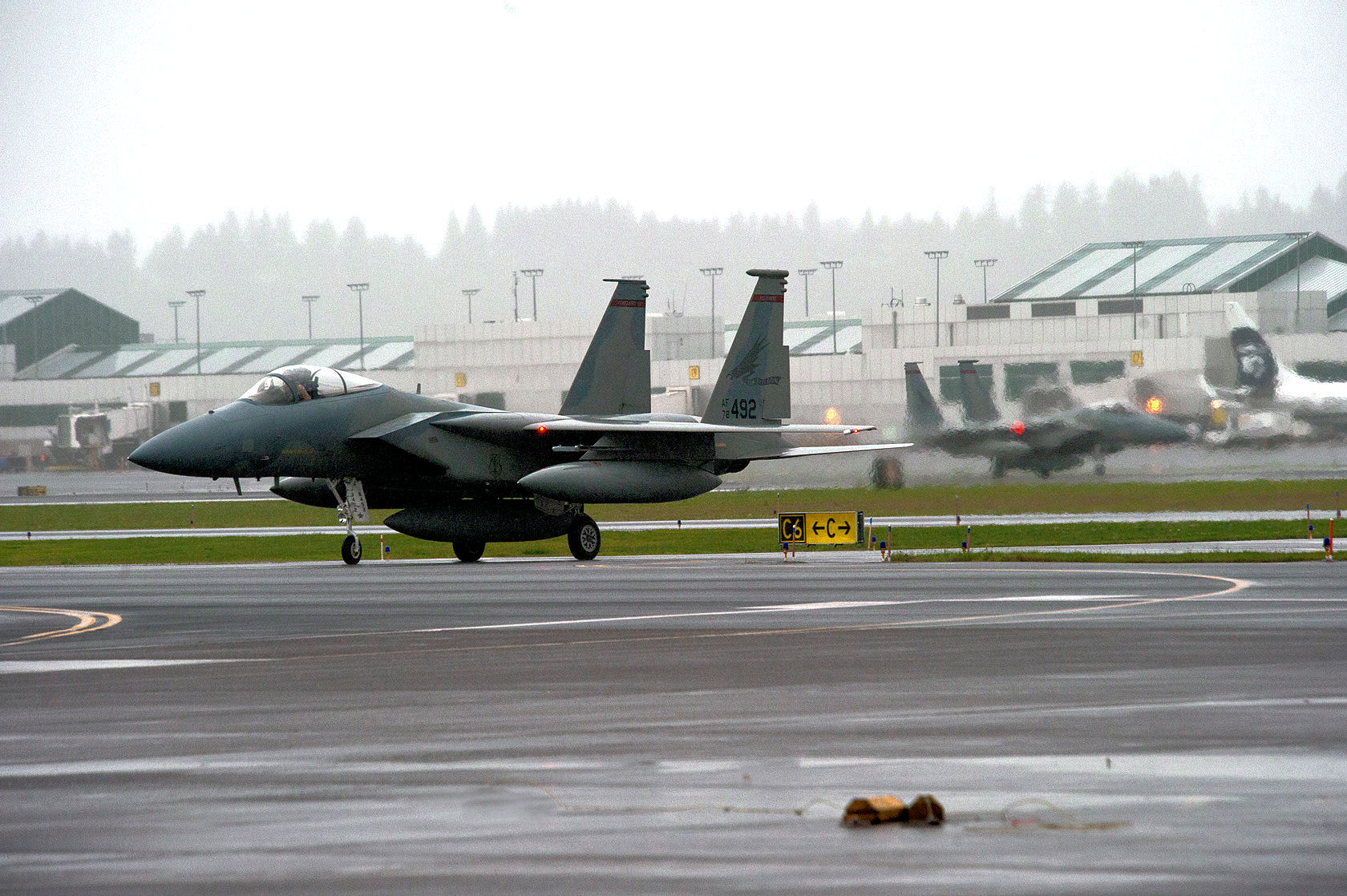 Three F-15 Eagles of the 142d Fighter Wing of the Oregon Air National Guard return to the Portland Air National Guard Base on November 18, 2010 after a 30 day overseas training tour in support of Exercise IRON FALCON to the United Arab Emirates Air Warfare Center.(U.S. Air Force Photograph by Staff Sgt. John Hughel, 142nd Fighter Wing Public Affairs Department)